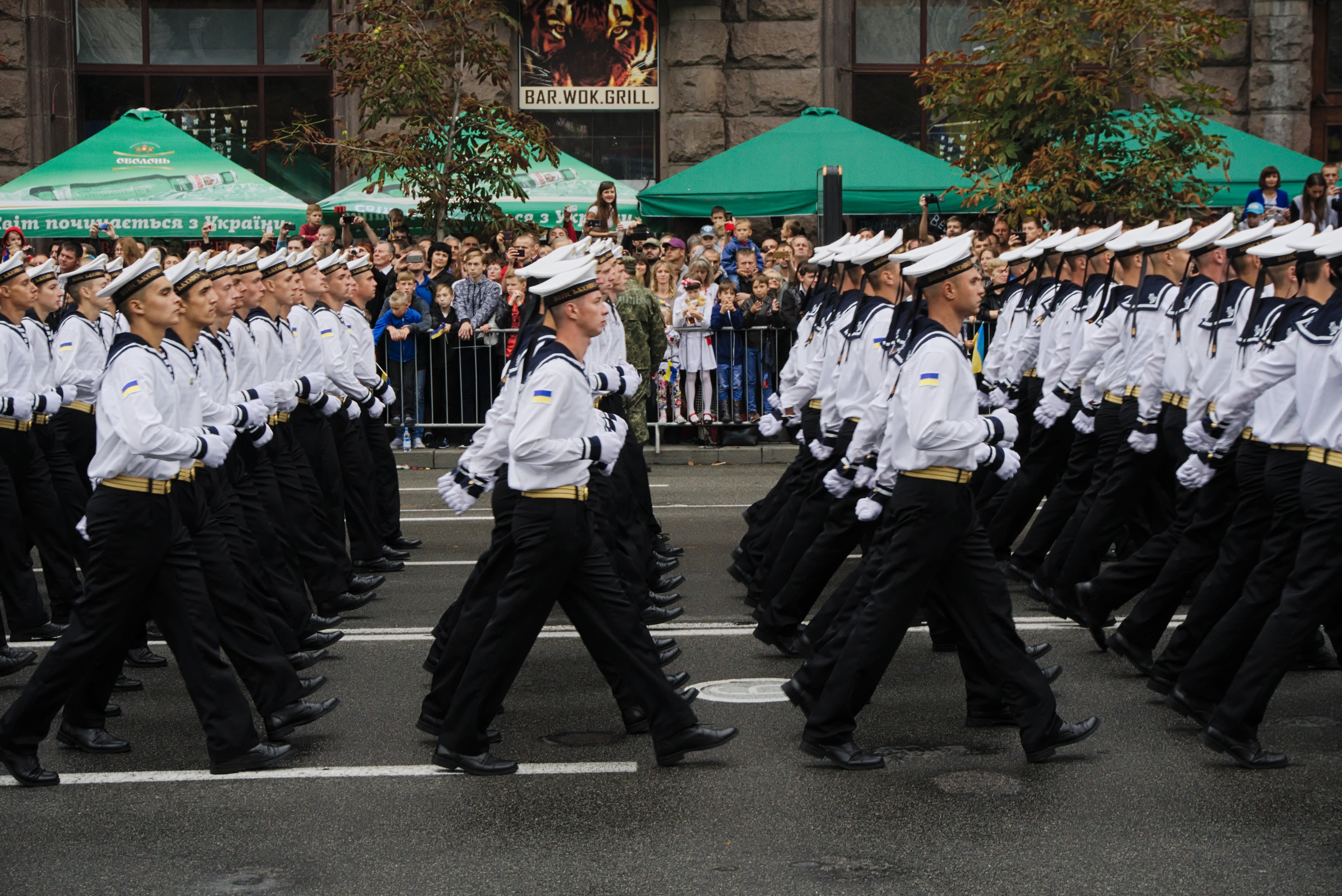 Cadets Institute Ukrainian Navy